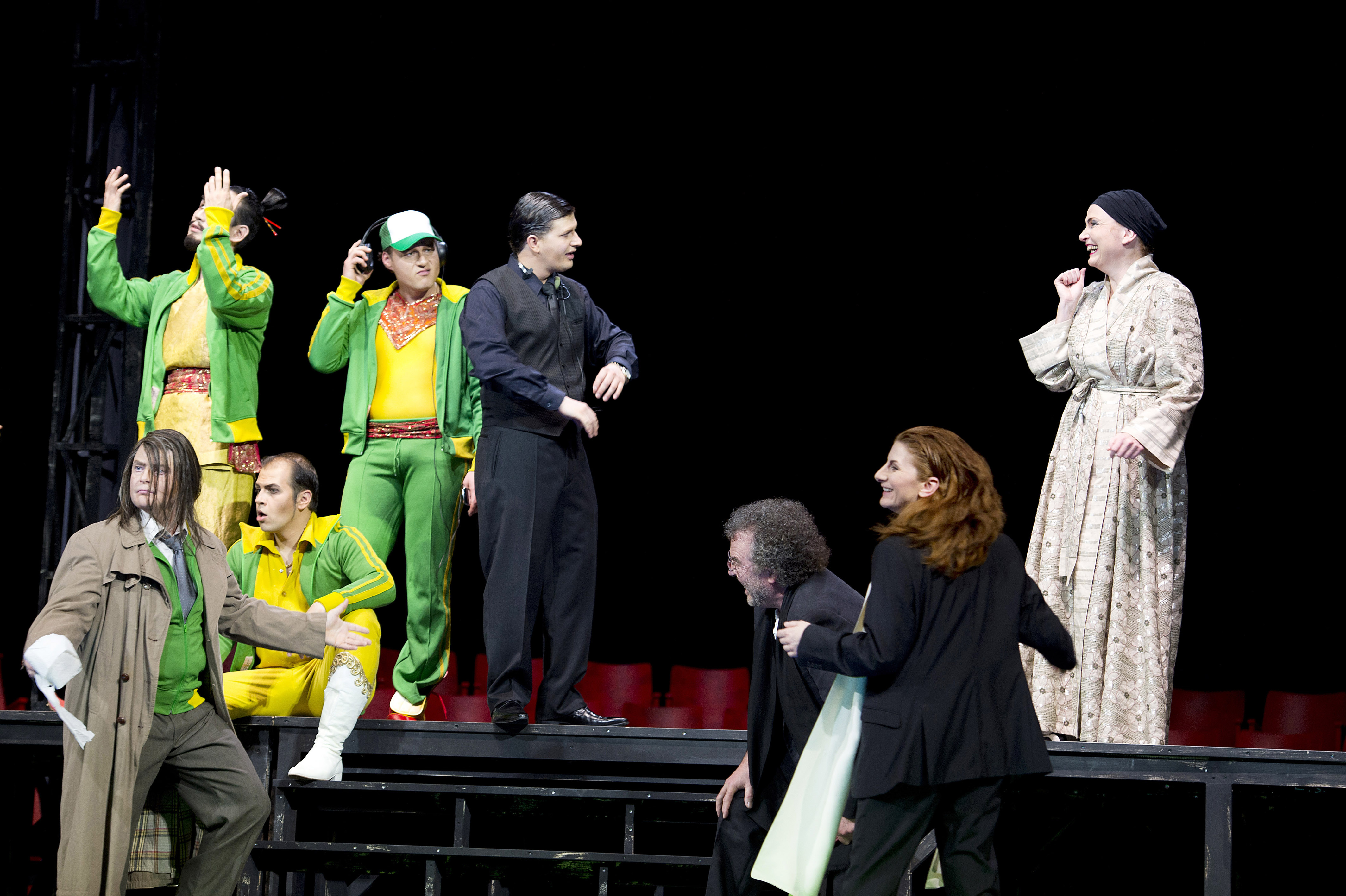 Production of Ariadne auf Naxos at Hamburgische Staatsoper 2012, stage photo: Jürgen Sacher as Tanzmeister (light-brown coat at left front), Jun-Sang Han as Brighella (top left), Adrian Sampetrean as Truffaldin (sitting left), Chris Lysack as Scaramuccio (with base cap), Levente Páll as Haushofmeister (standing in black pants and vest), Franz Grundheber as Musiklehrer (right, standing laughing), Cristina Damian as Komponist (with red hair), Anne Schwanewilms as Primadonna / Ariadne (top right in bathrobe).